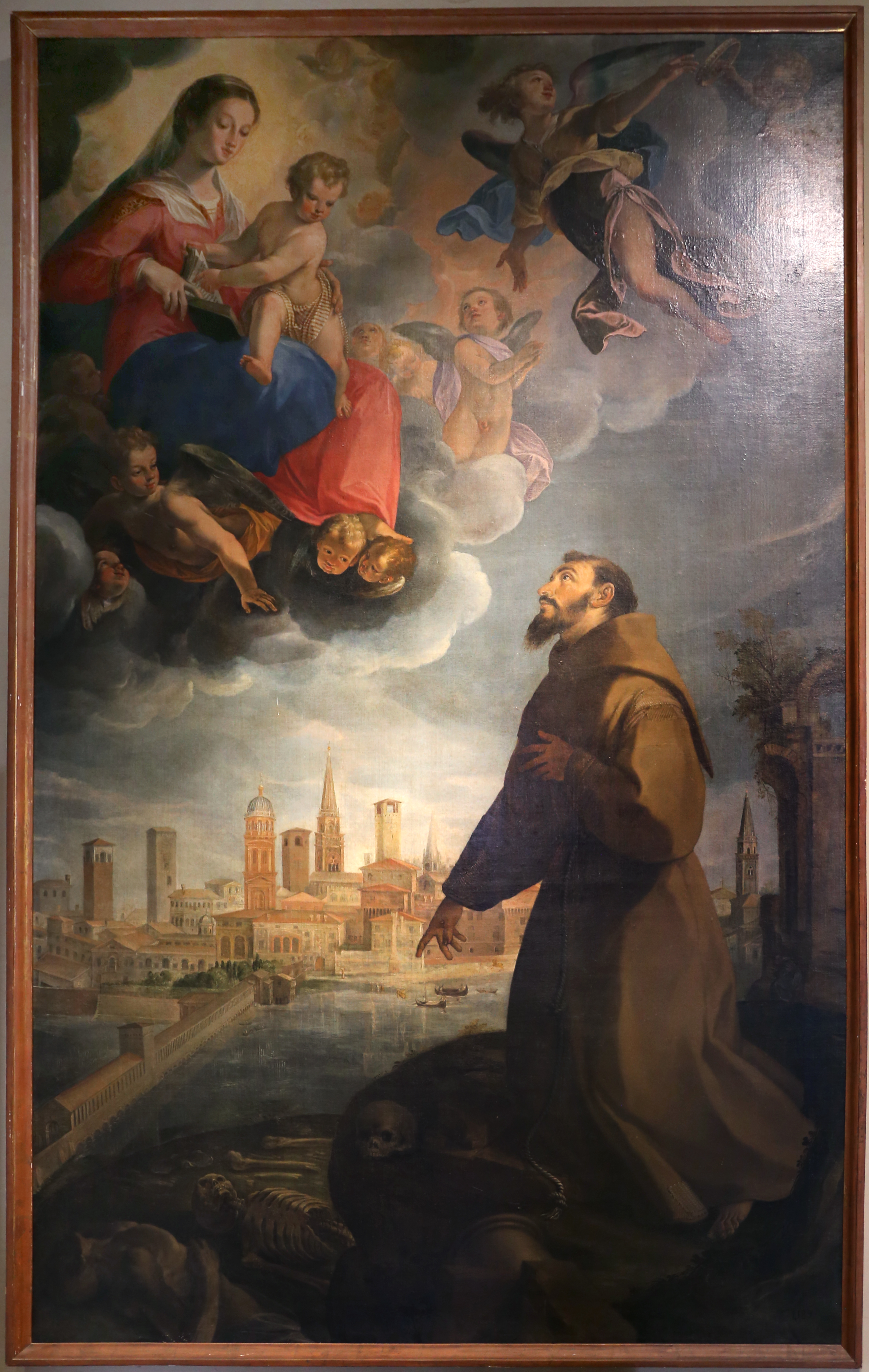 Collections of Palazzo Ducale (Mantua)